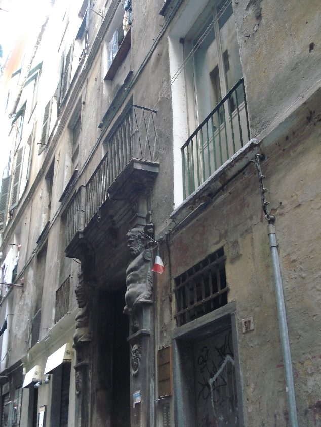 Giustiniani Palace in Genova